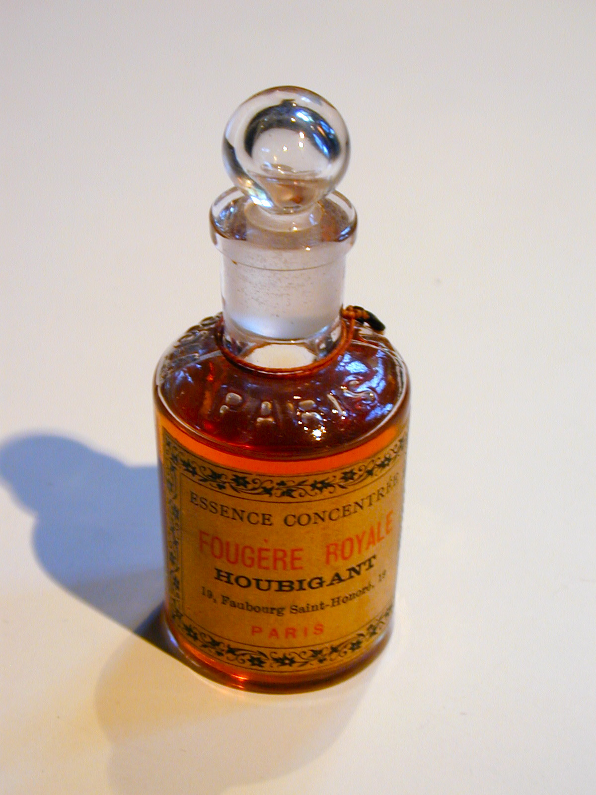 Early bottle, circa 1884, of Fougère Royale (Houbigant) by perfumer Paul Parquet